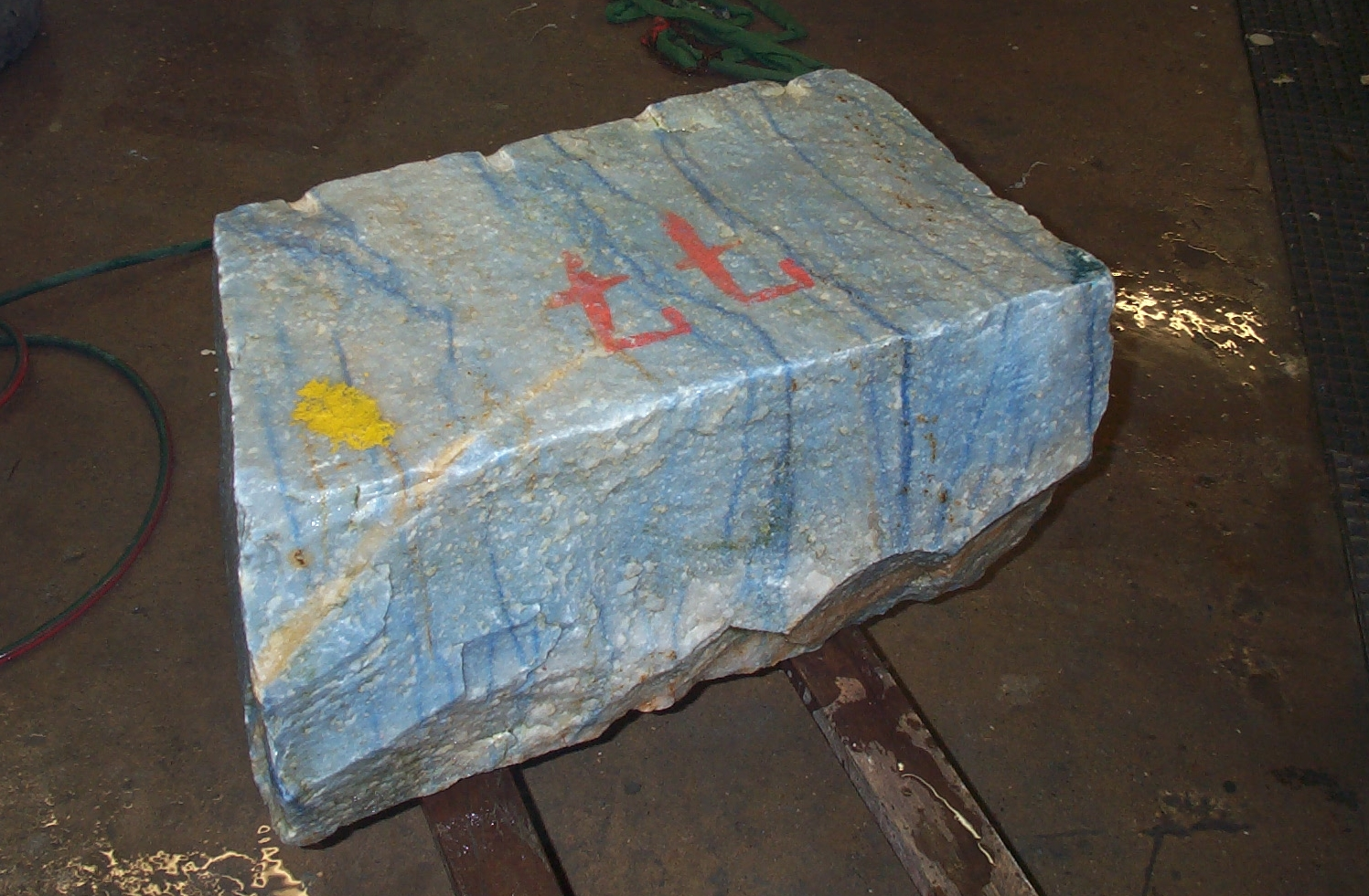 Azul Macaubas, raw